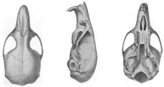 Adult male holotype skull of Oryzomys monochromos (=Thomasomys monochromos) from El Paramo de Macotama, 11000 ft altitude, Colombia. Bangs Collection, nr. 8348. Drawn from nature.